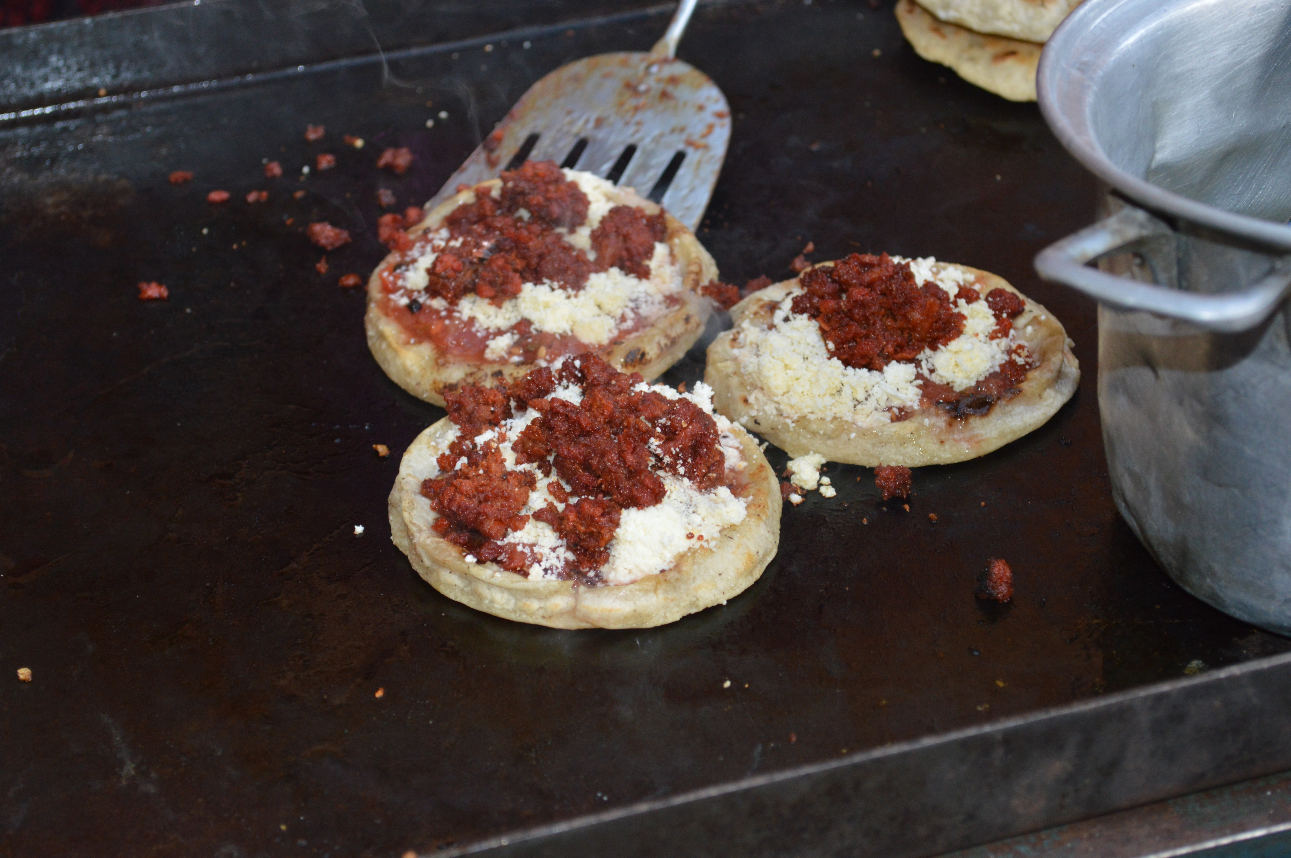 Sopes (or pellizcados) cooking at the 2015 Encuentro Chilenero in Iztapalapa, Mexico City